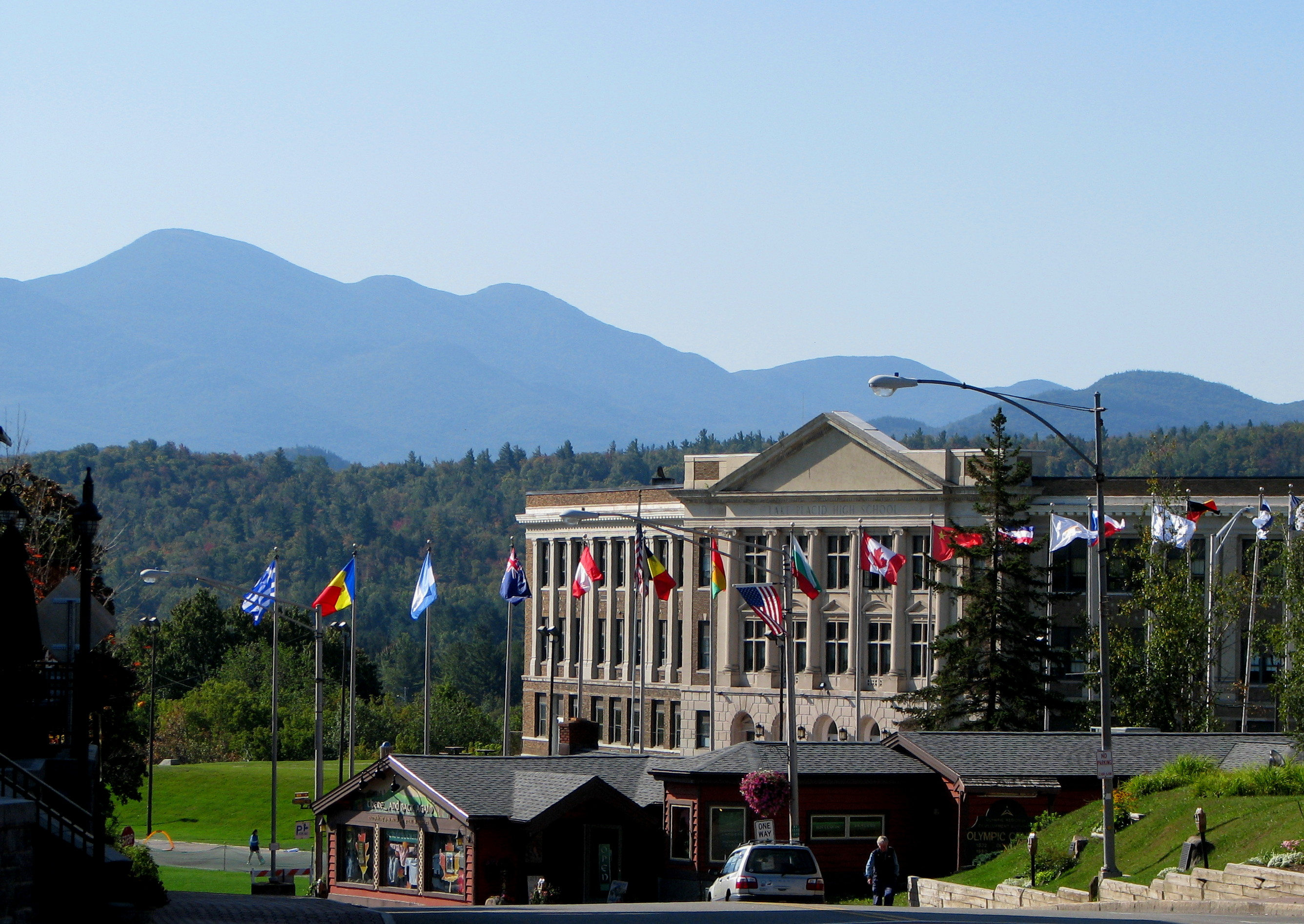 Lake Placid High School, looking southeast from NY 86